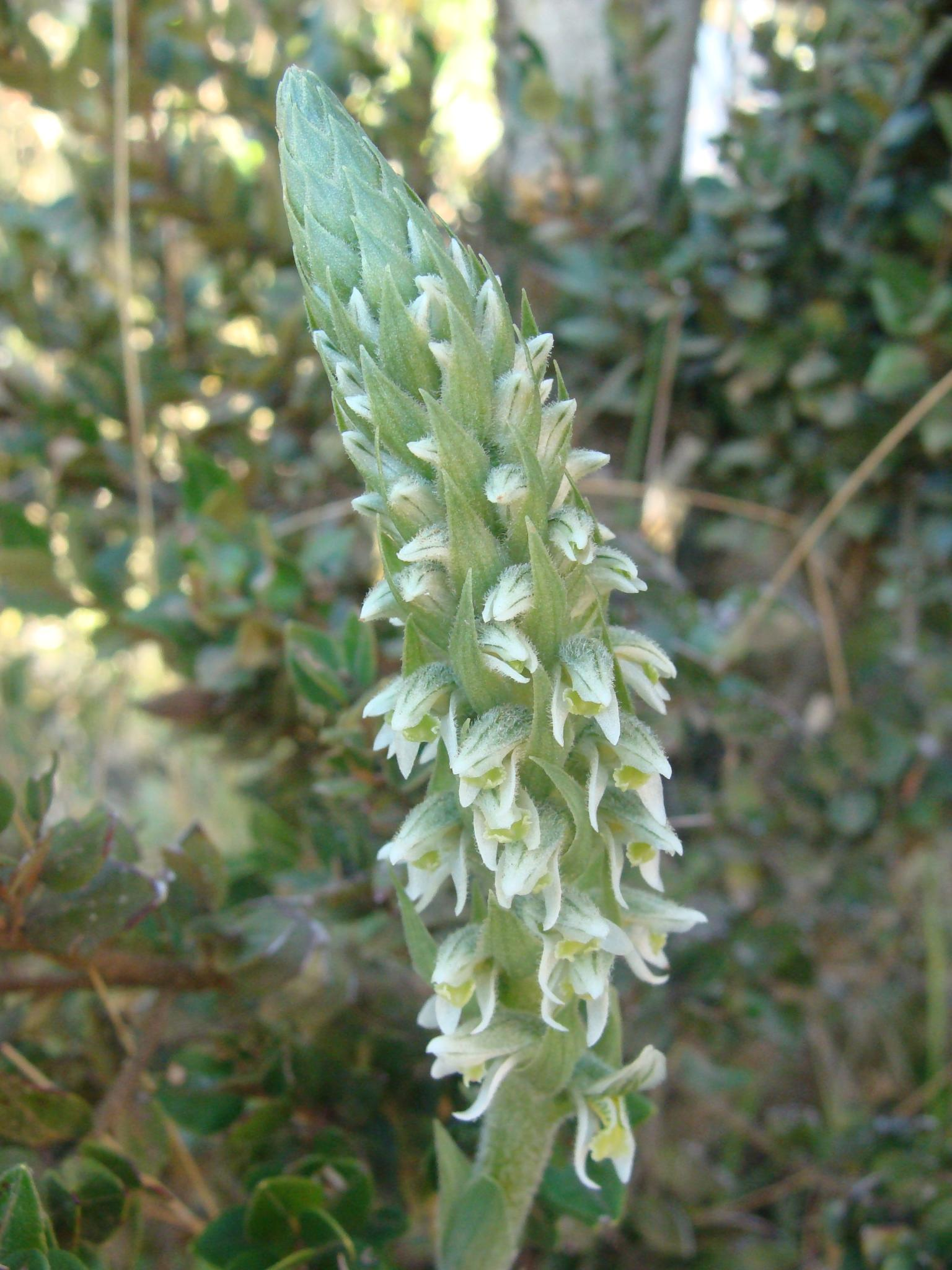 Brachystele unilateralis